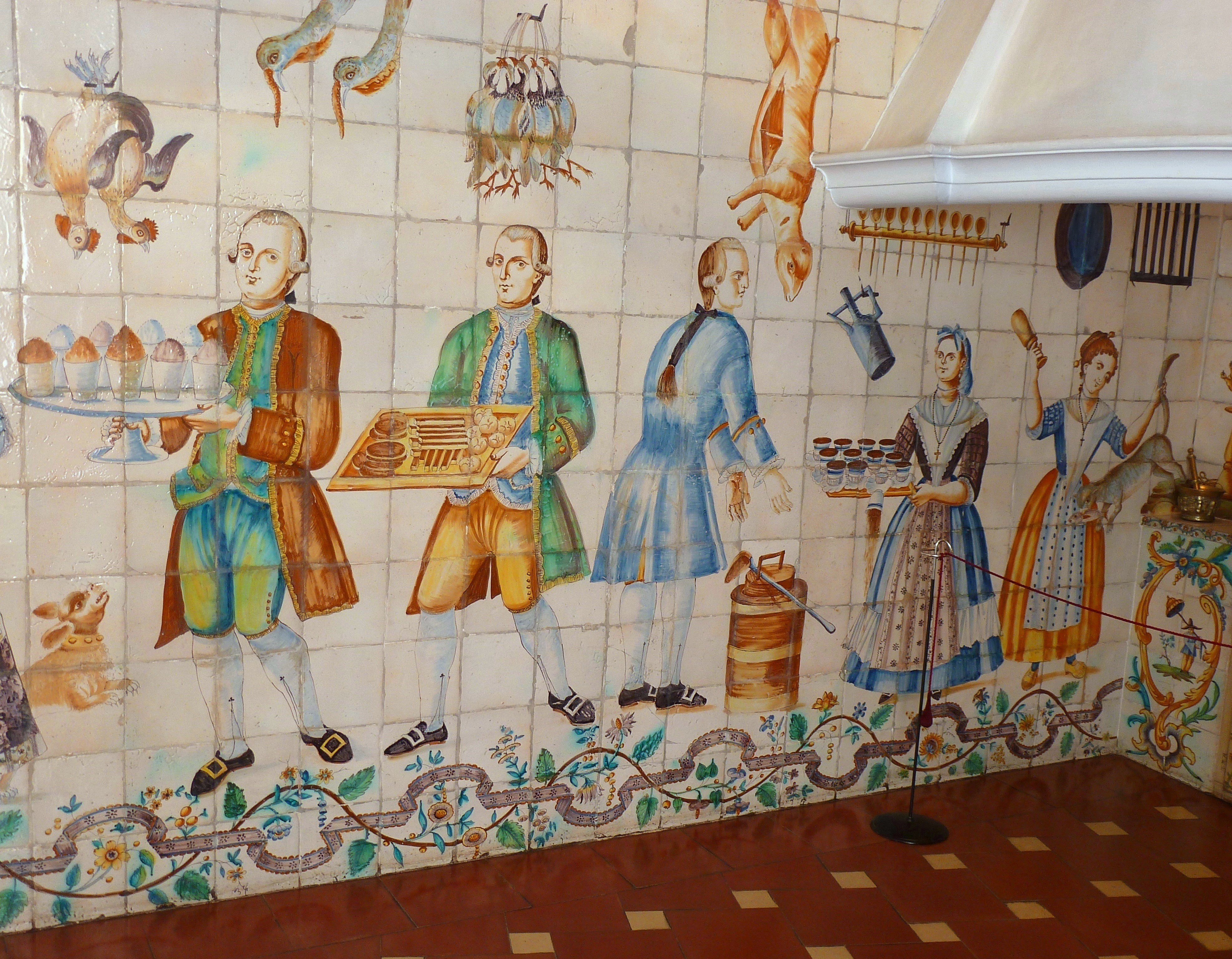 Valencian tiled kitchen (detail)